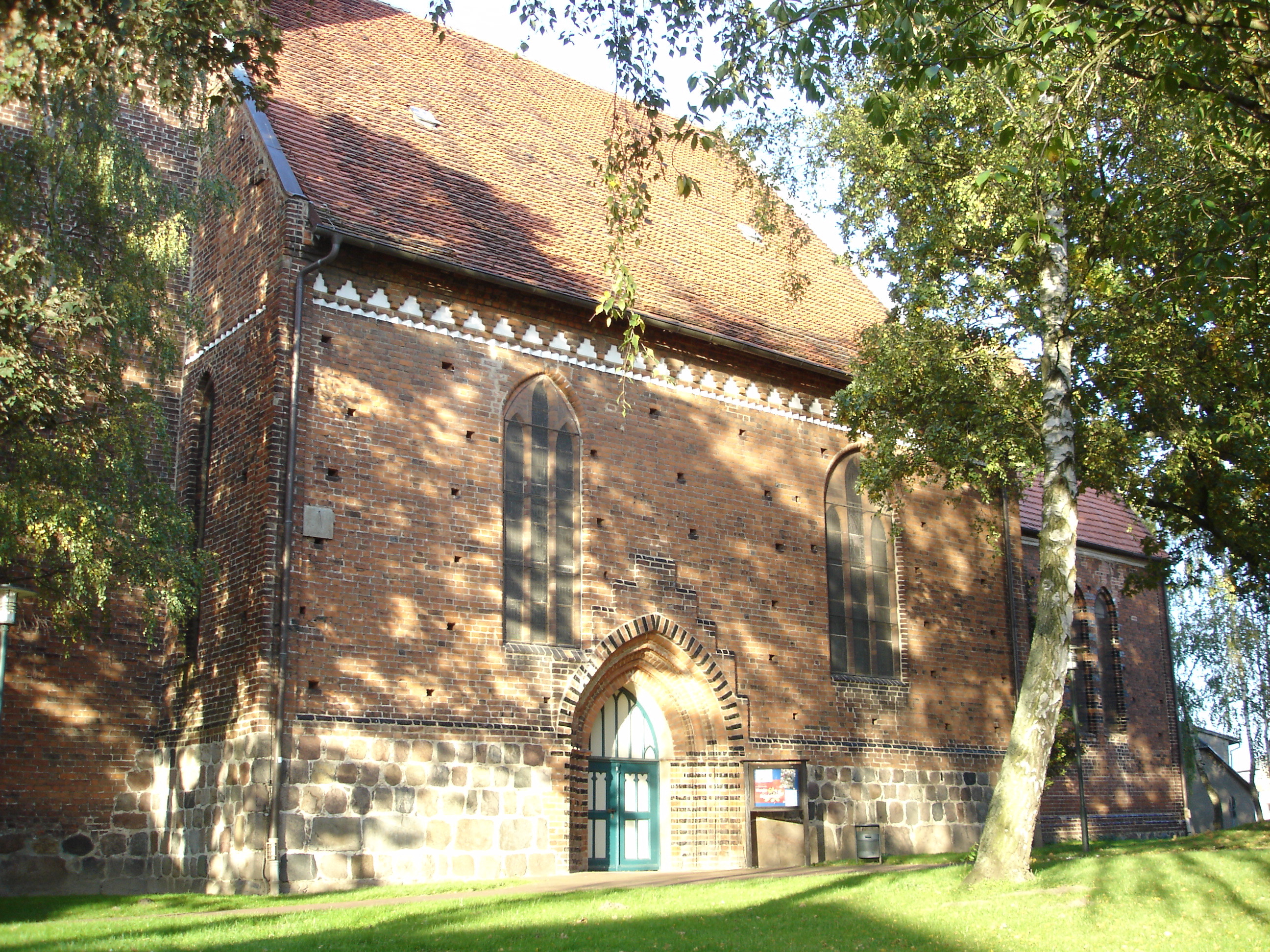 Church in Neubukow, Mecklenburg, Germany